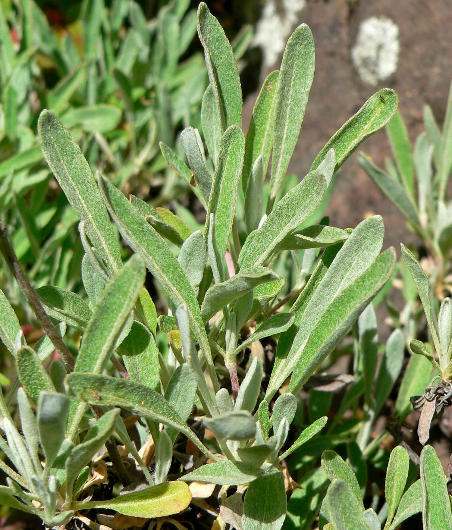 Photo of Eriogonum heracleoides at the Regional Parks Botanic Garden, Berkeley, California